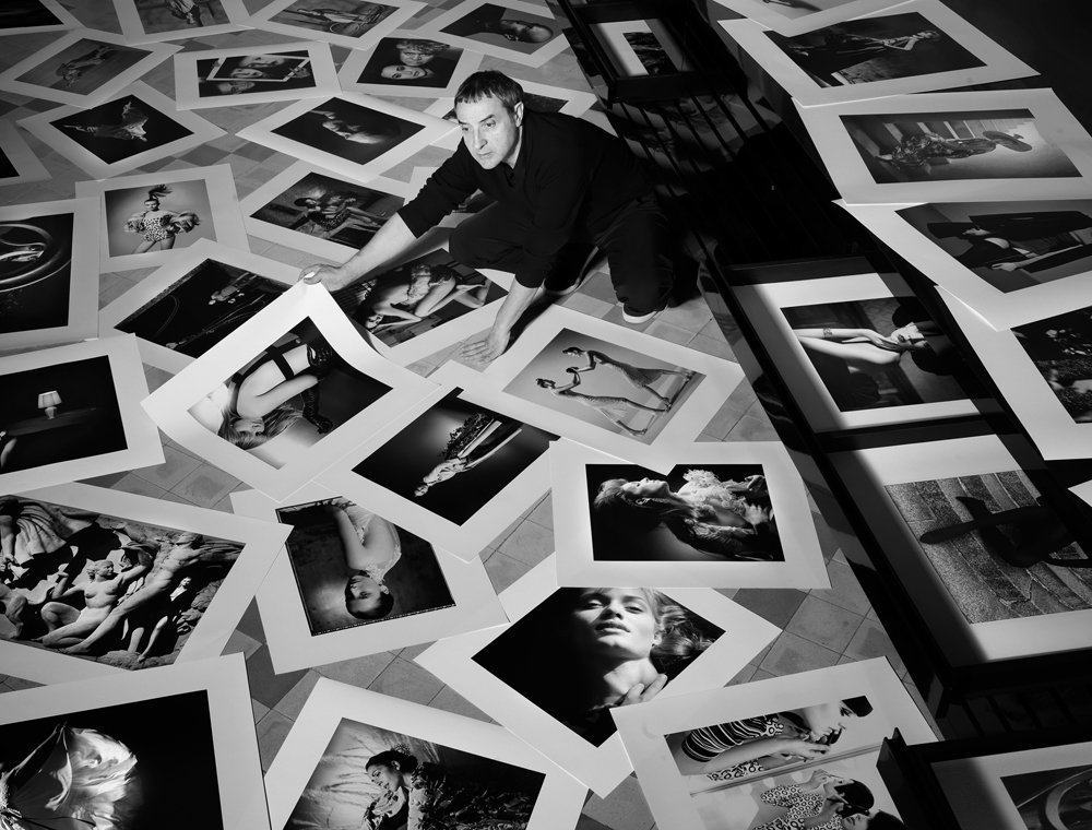 Photographer Manuel Outumuro in his studio in a picture taken by Walter Galleguillos